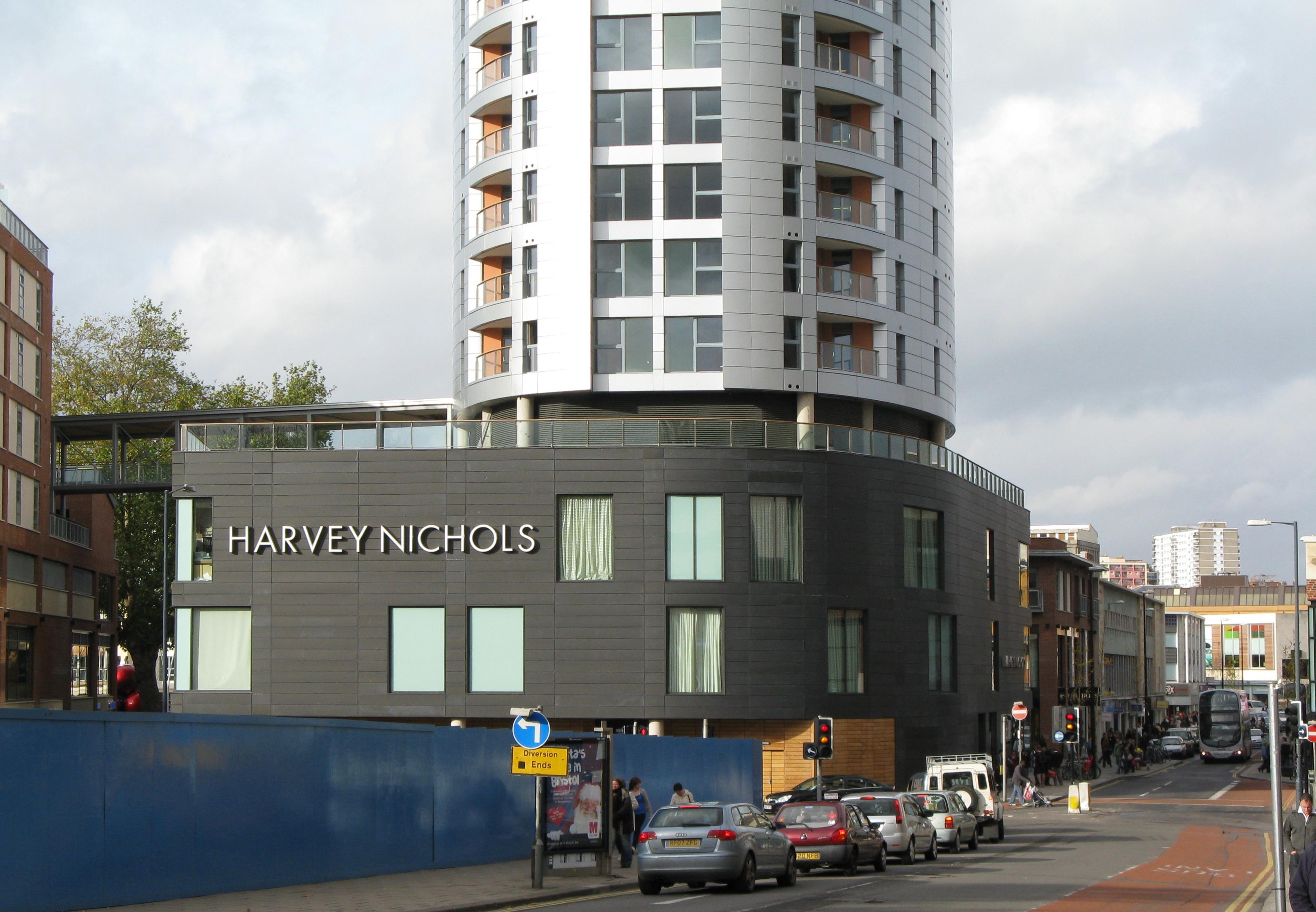 Harvey Nichols department store in Cabot Circus shopping centre, Bristol, England.